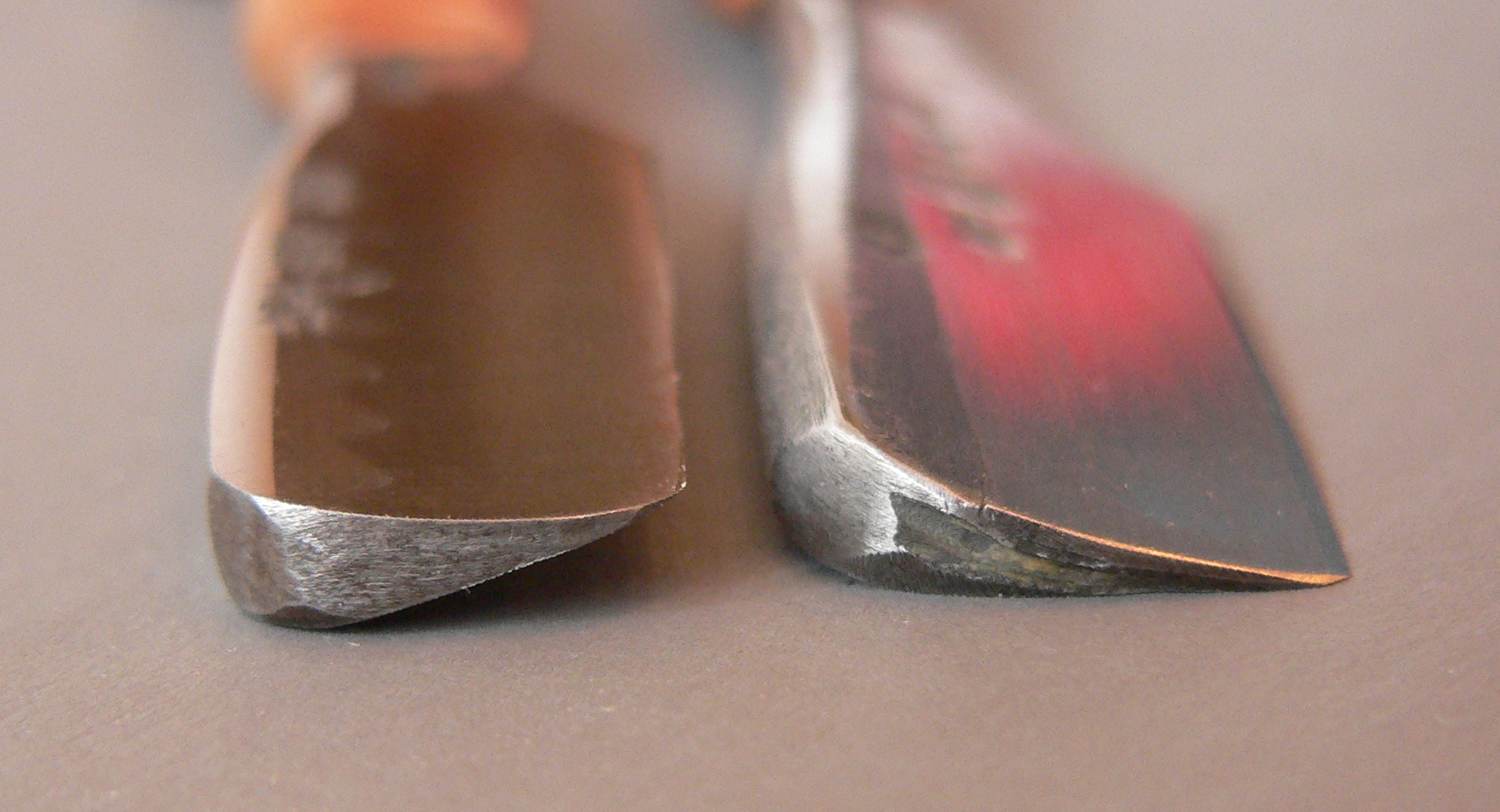 Two old and used kamisoris, frontview